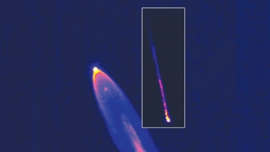 Infrared thermal imagery of Falcon 9 SpaceX CRS-4 launch on 21 September 2014. The larger image was captured shortly after second stage separation from the first stage: The top of the first stage appears as a dim dot with a fading plume within the brighter plume of the second stage rocket exhaust plume. In the inset, photographed subsequently, the restarted first-stage engines power the stage as it performs a propulsive descent to Earth. Photograph was captured at night, over the ocean, approximately 100 km northeast of Cape Canaveral, Florida, using infrared thermal imagery from both NASA and U.S. Navy airborne tracking cameras.